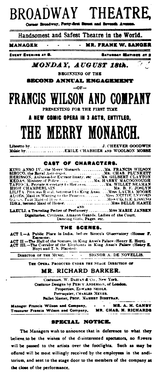 Handbill for play "The Merry Monarch" which debuted at The Broadway Theatre in New York City on August 18, 1890. See also page following page 68 at